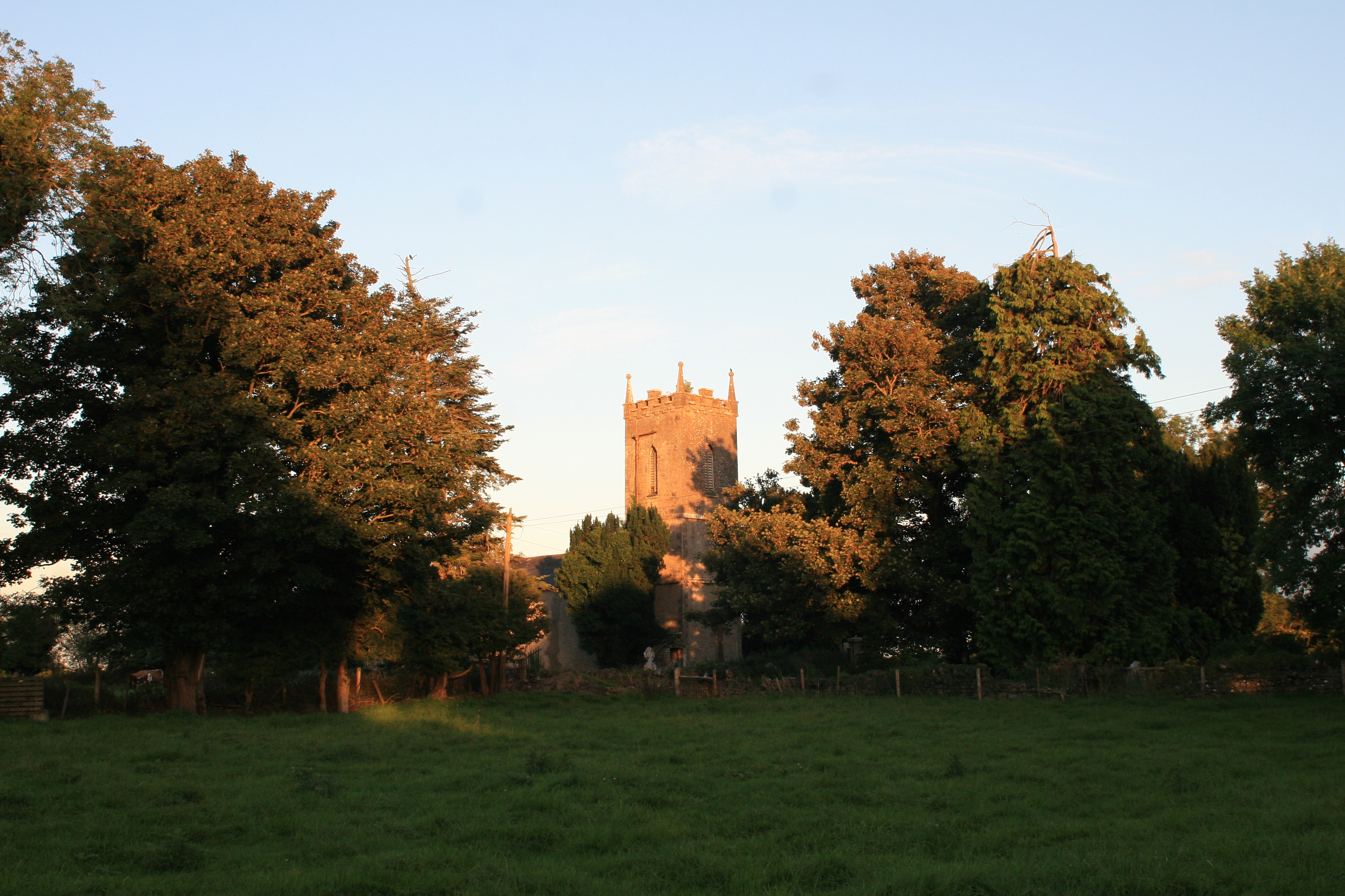 Clonard, County Meath, Ireland 19th-century church of the Church of Ireland at the ancient monastic site of St. Finian